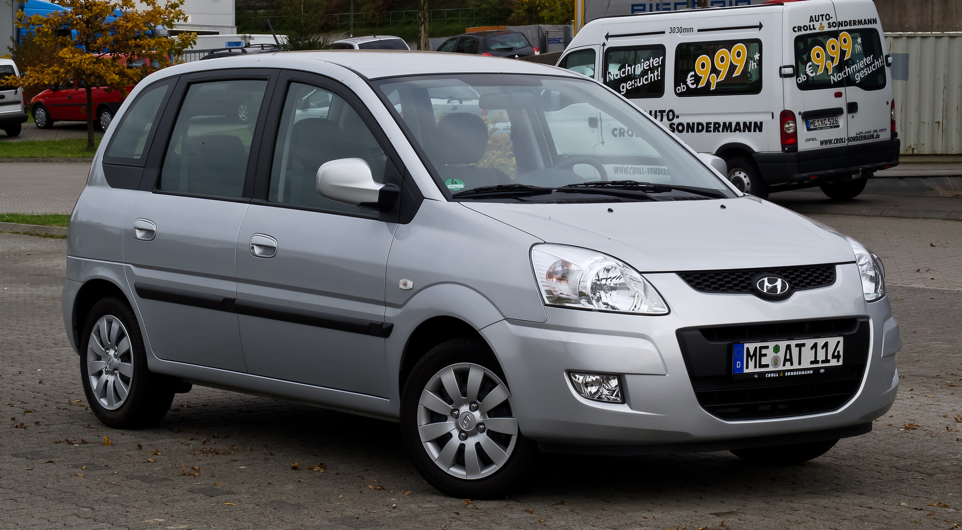 Hyundai Matrix 1.6 Comfort (2. Facelift)